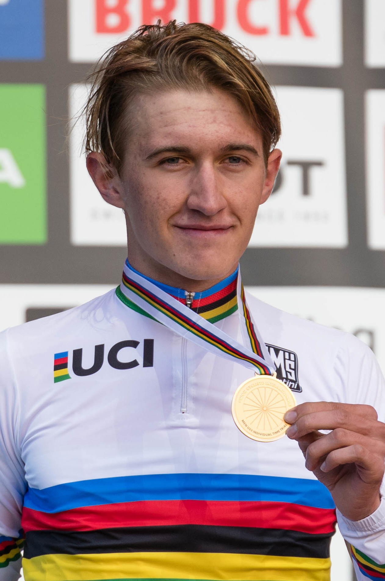 2018 UCI Road World Championships Innsbruck/Tirol Men under 23 Individual Time Trial. Picture shows: Award Ceremony Men under 23 Individual Time Trial with Brent van Moer (BEL), Mikkel Bjreg (DEN) and Mathias Norsgaard Jorgensen (DEN)